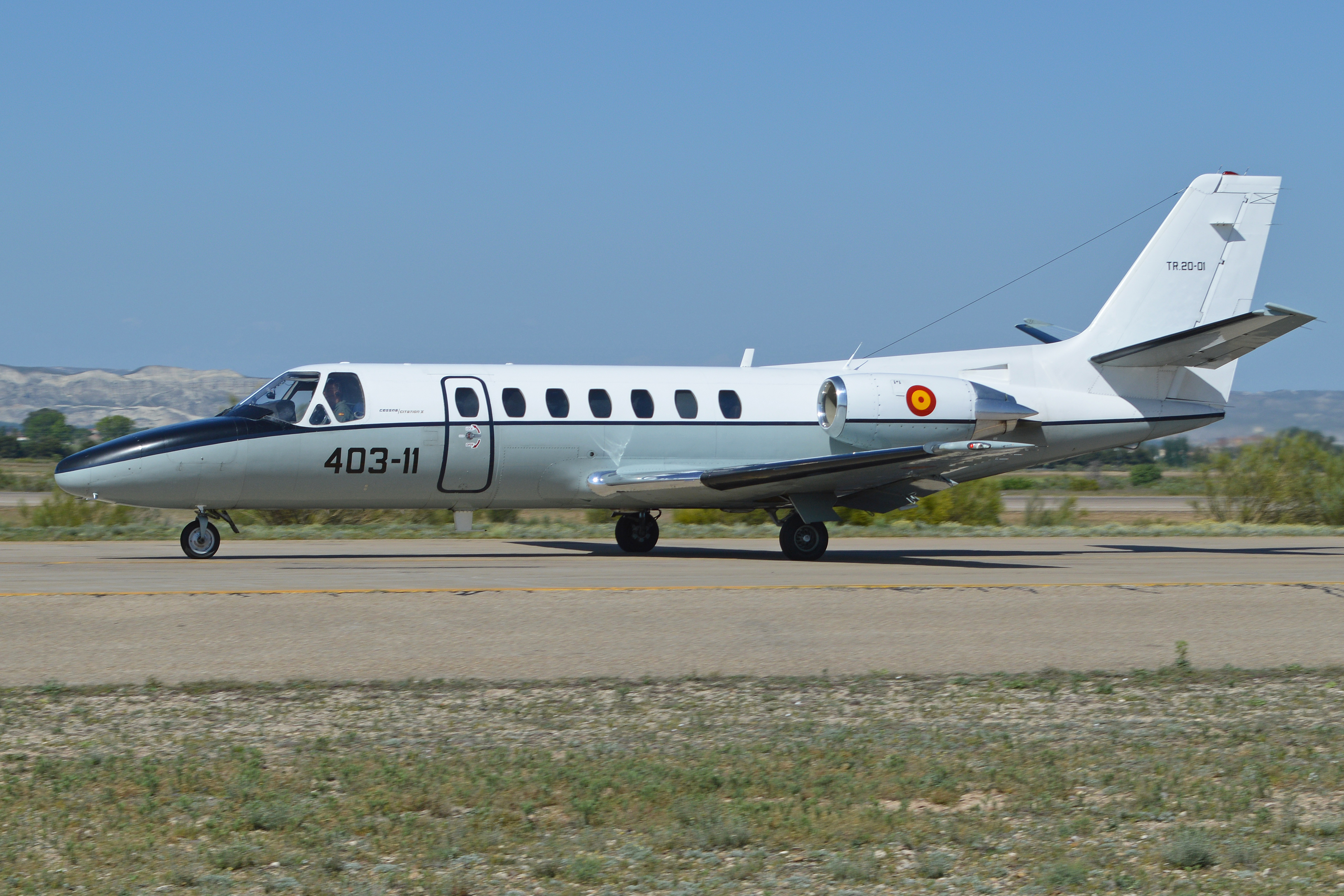 c/n 560-0161. Operated by 403 Esc, Spanish Air Force, based at Getafe. Seen during the 2016 NATO Tiger Meet (NTM), Zaragoza Air Base, Spain. 20-5-2016